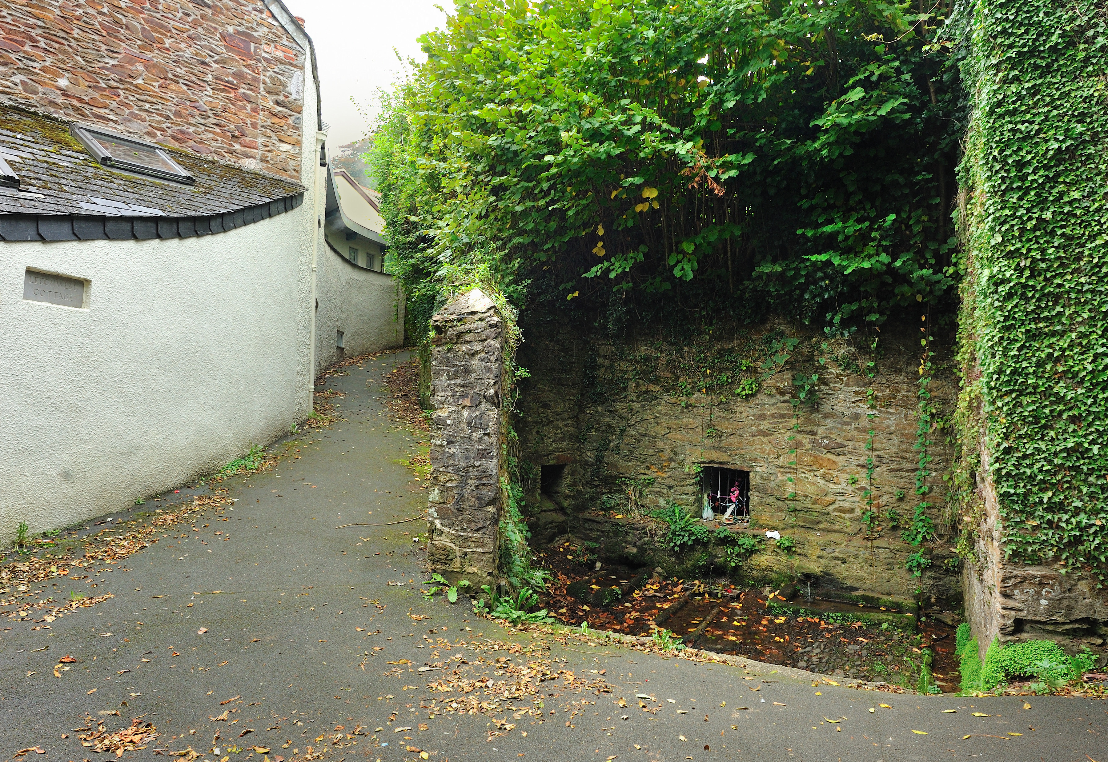 The Leechwell, an ancient spring in Totnes, Devon, England, known for its supposed healing properties.